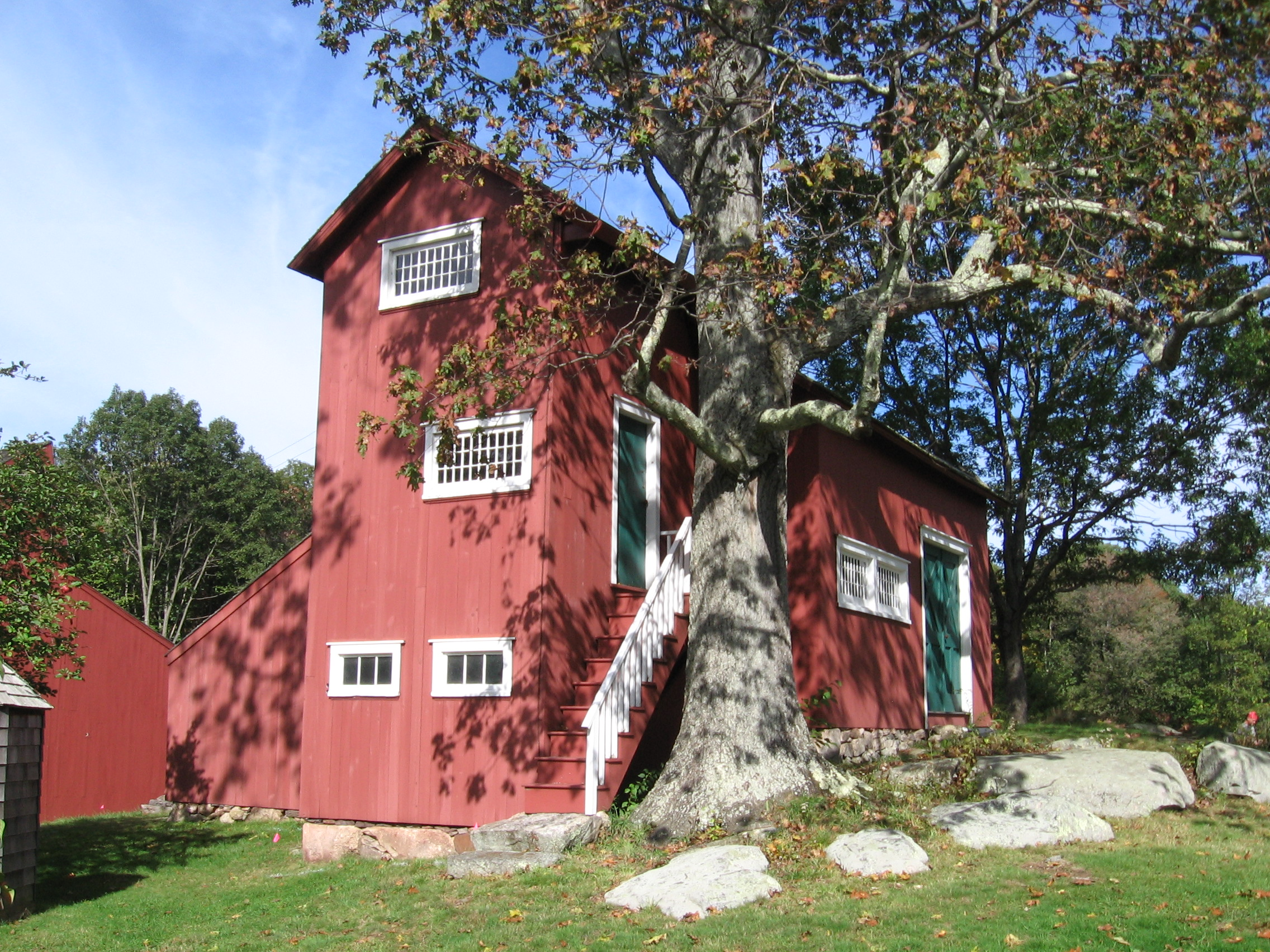 Studio of J. Alden Weir, American impressionist painter, in the Branchville, Connecticut section of Ridgefield, Connecticut, just north of the border with Wilton, Connecticut. Weir bought the farmhouse in 1881 and later built his studio just behind it. View is looking north at the studio building. The Weir farm is now a National Historic Site operated by the National Park Service of the United States.